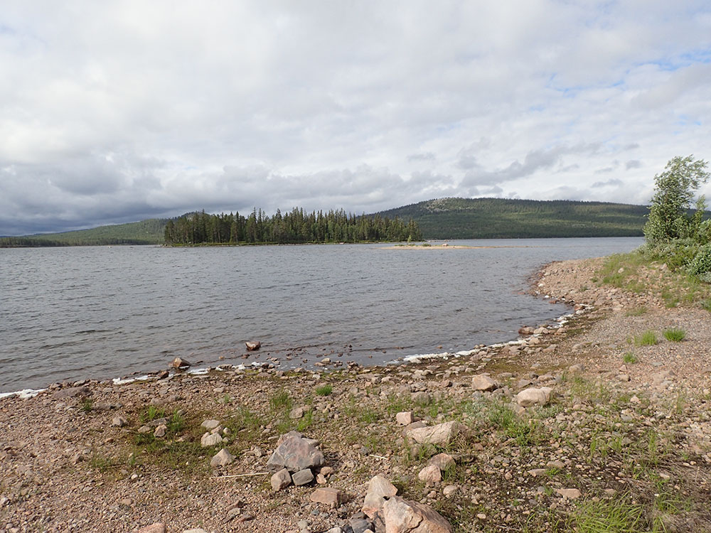 Lake Uddjaure (Ujják) at Straggviken bay.